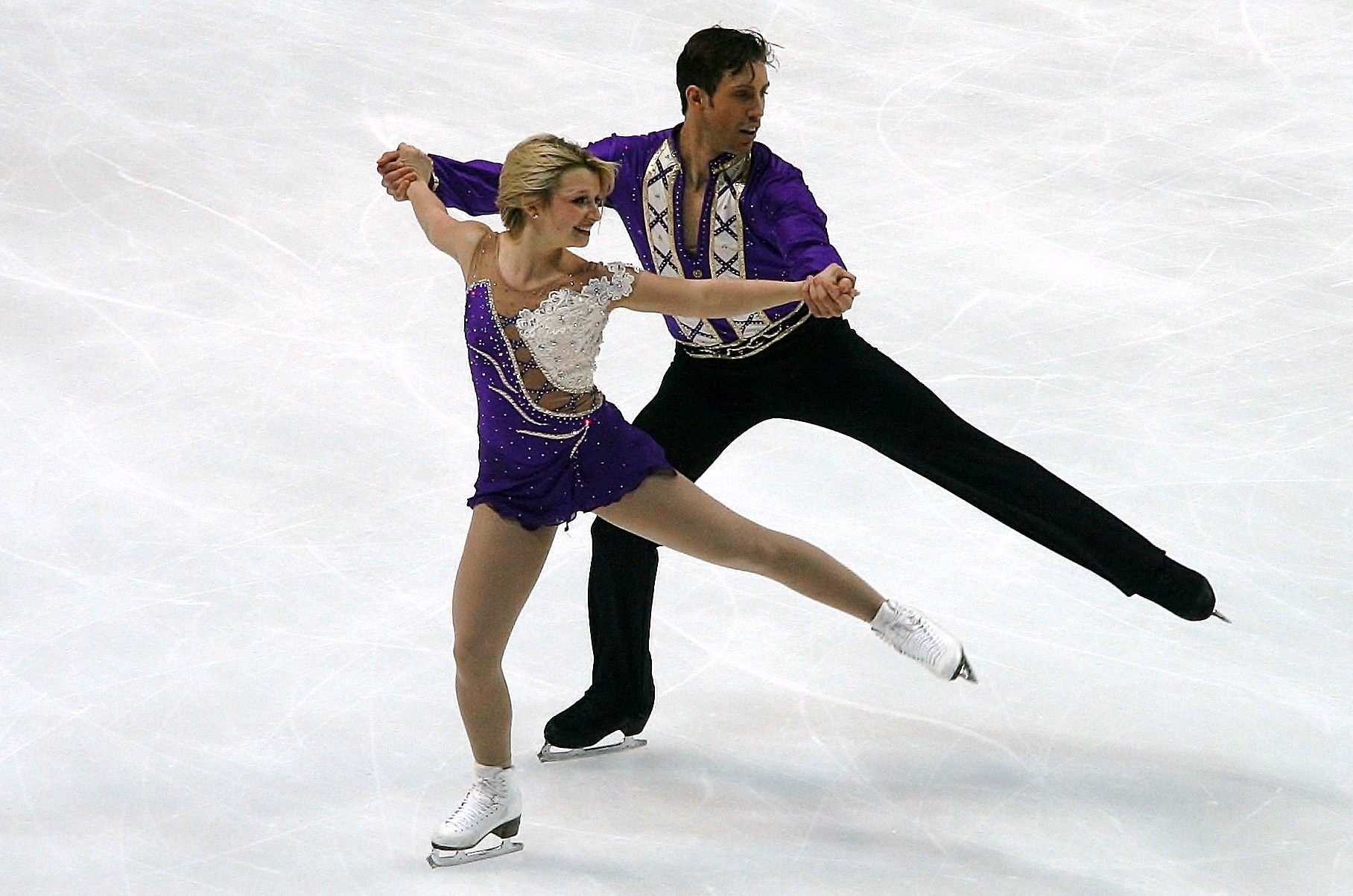 Kirsten Moore-Towers and Dylan Moscovitch at the 2011 World Figure Skating Championships